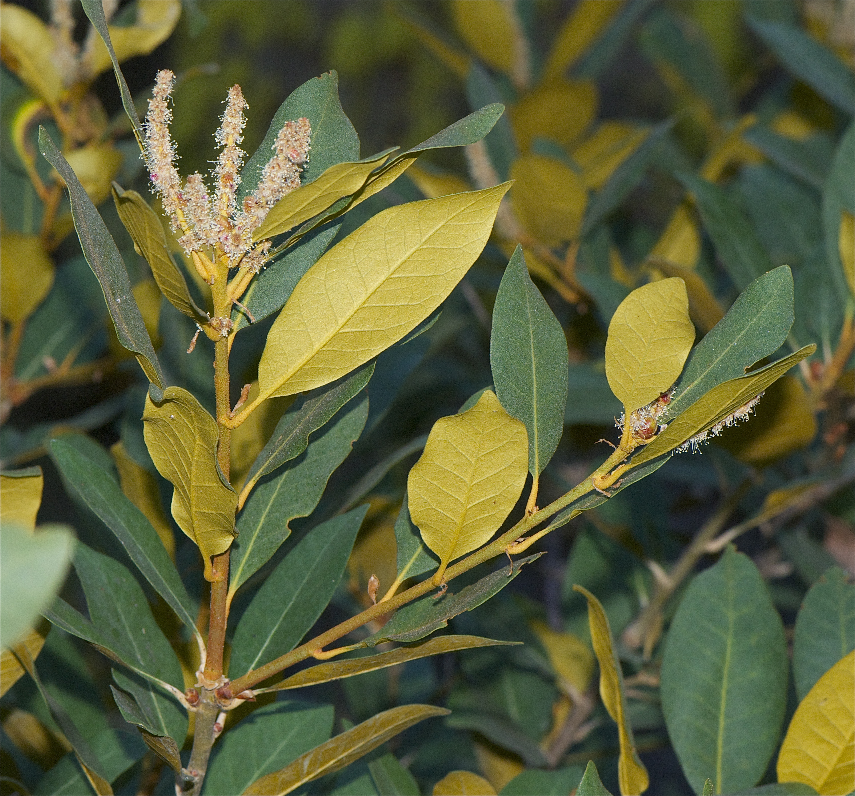 Chrysolepis sempervirens